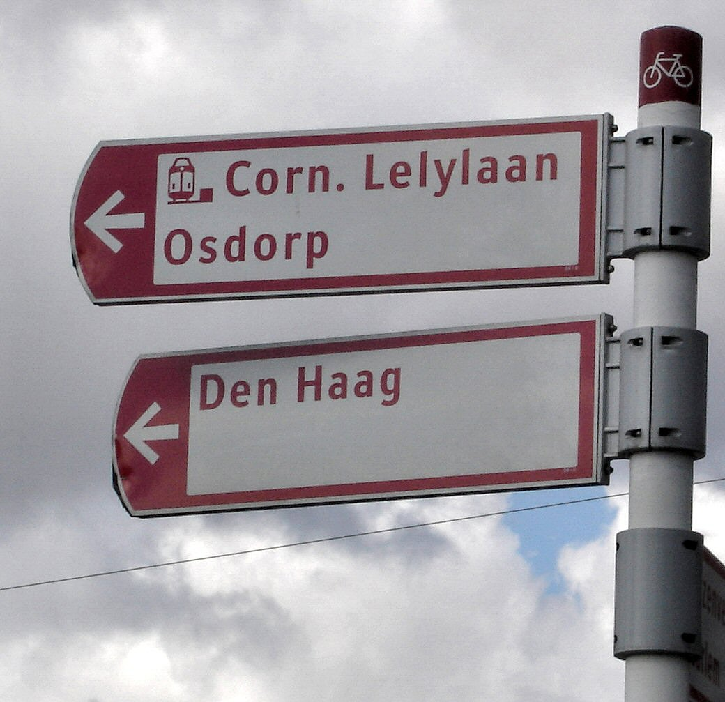 ANWB cycle route signs (Corn. Lelylaan Osdorp and Den Haag) with font designed by Gerard Unger in 1997.